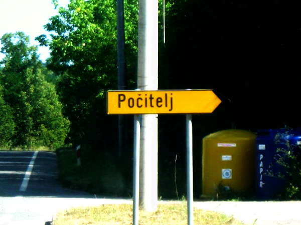 A sign at the entrance to the village Pocitelj, Croatia.jpg